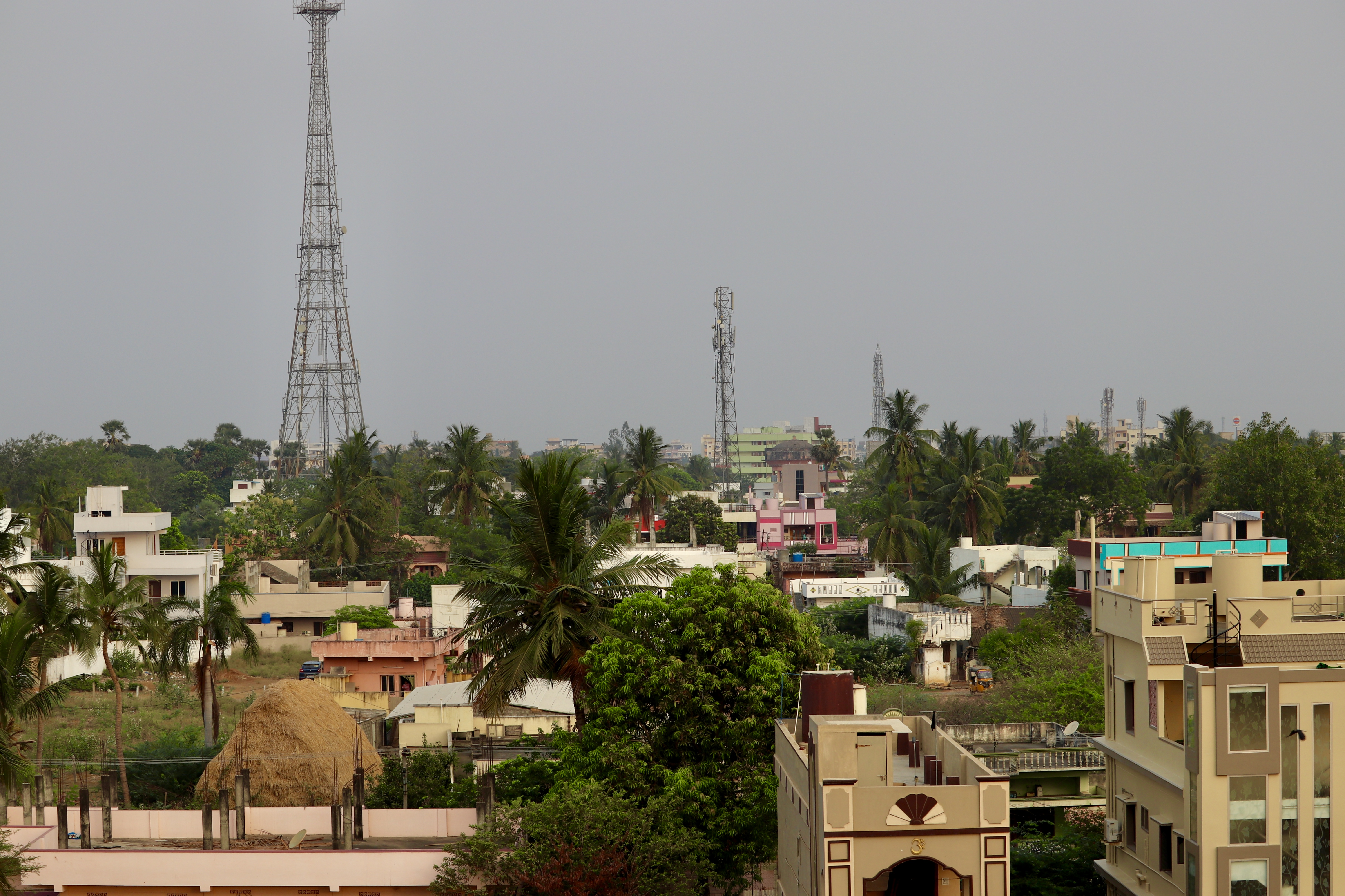 Eluru city view